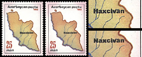 Postage stamp of Azerbaijan, Nakhichevan, 25 manats, 1993